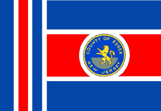 Essex County, New Jersey Flag